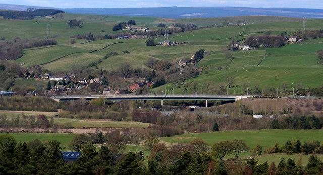 Haltwhistle Bypass Bridge carrying the A69 across the River South Tyne and the Carlisle to Newcastle Railway.